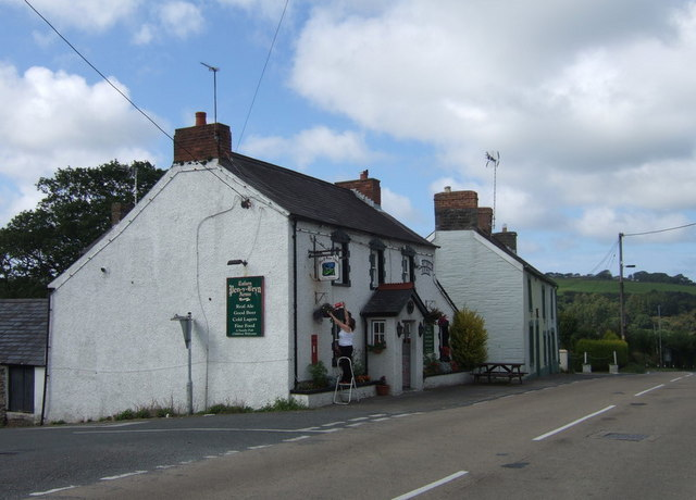 Pen-y-bryn Arms The pub (complete with letterbox) conveniently faces the chapel at this crossroads hamlet on the A478 between Cardigan and Narberth.